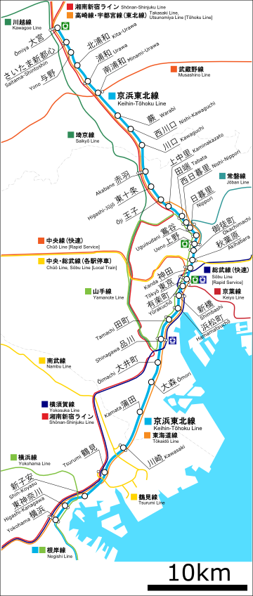 Map of JR Keihin-Tohoku Line and other lines.